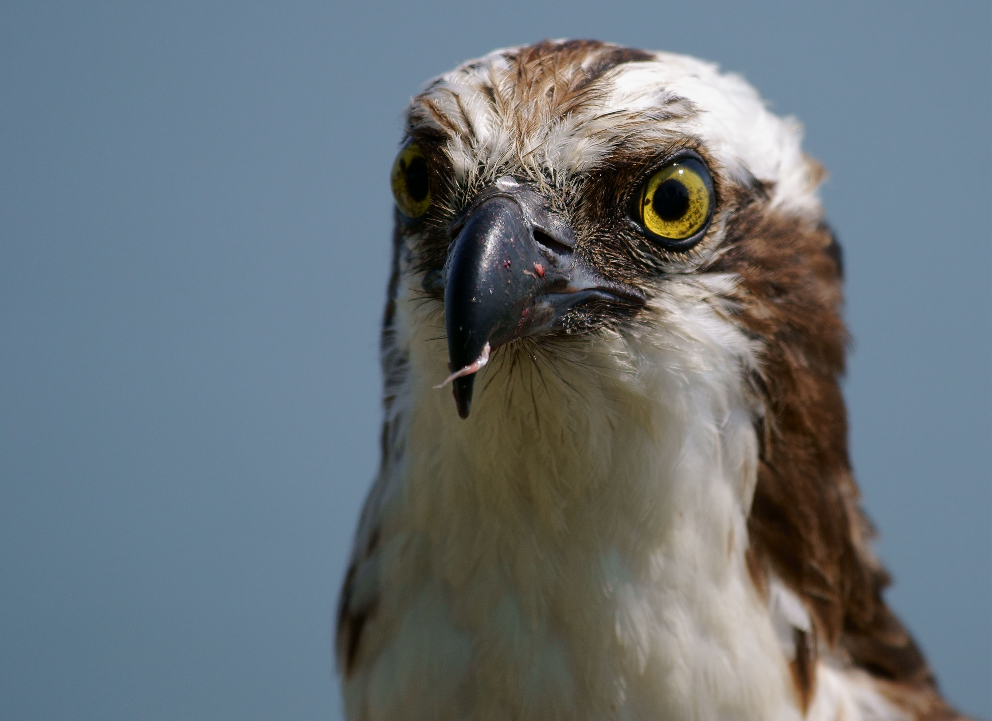 An Osprey in San Francisco Bay, California, USA.